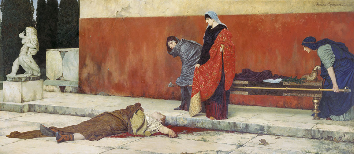 ВАСИЛИЙ СМИРНОВ. Смерть Нерона. 1888. Death of Nero The State Russian Museum - Saint Petersburg